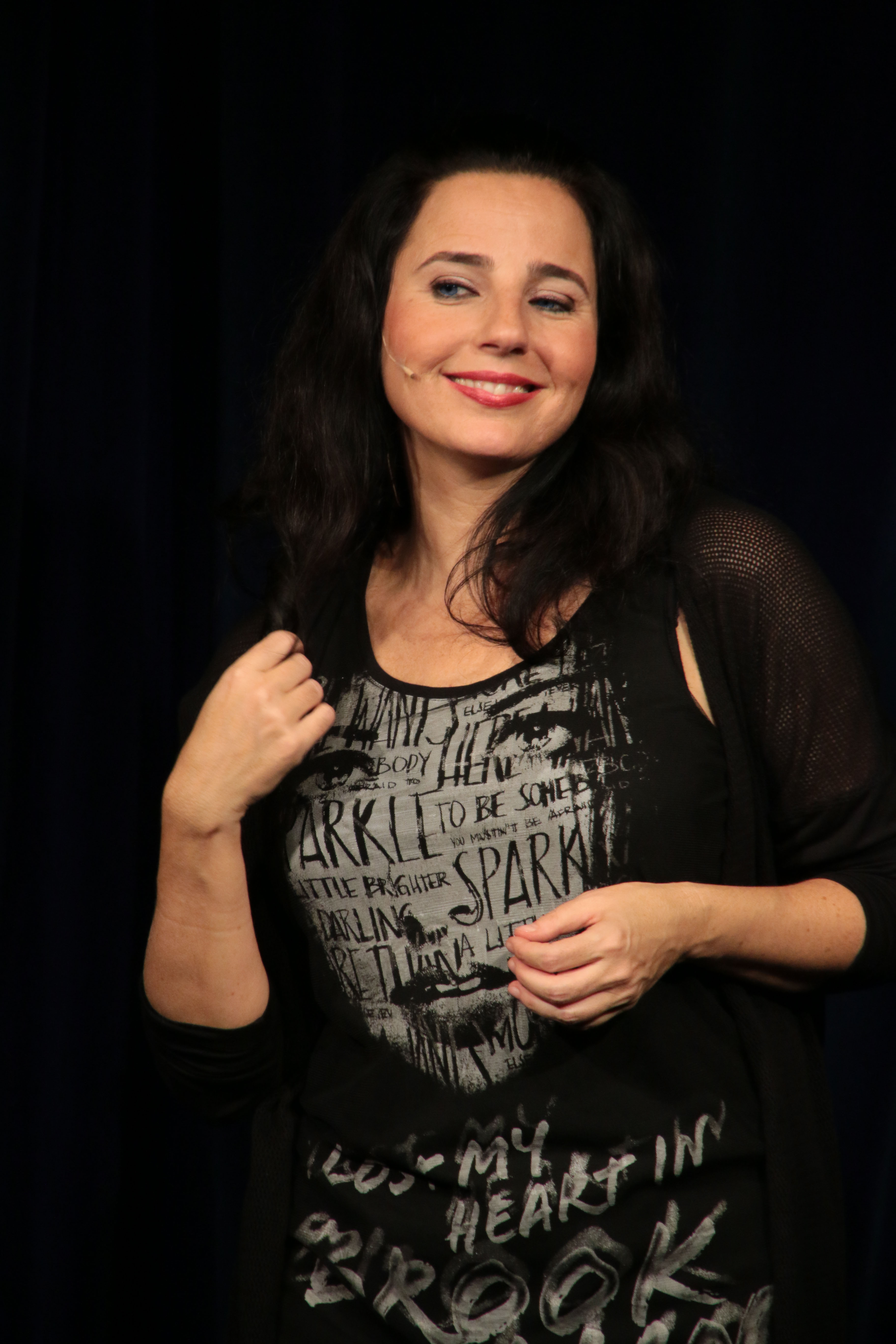 Nadja Maleh's cabaret solo program "Placebo", performed Oct. 22nd, 2015 at Scharfrichterhaus in Passau, Germany